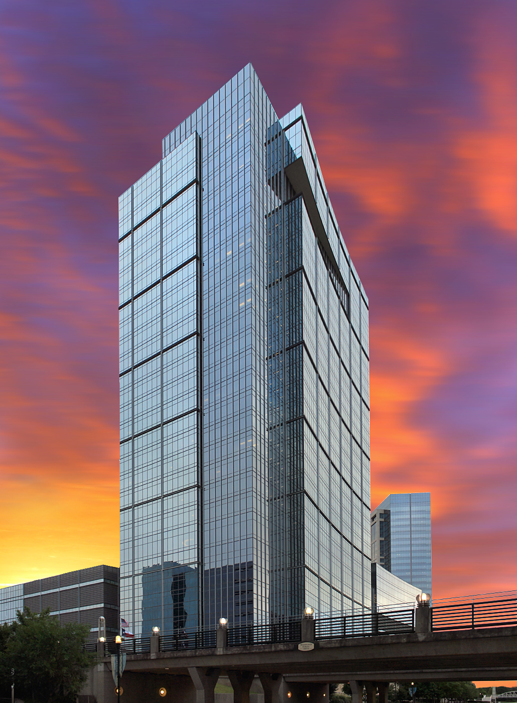 Anadarko Petroleum Corp